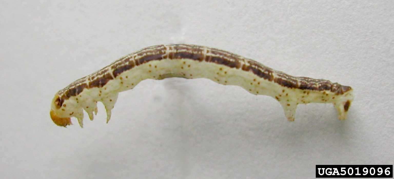 Rheumaptera prunivorata larva